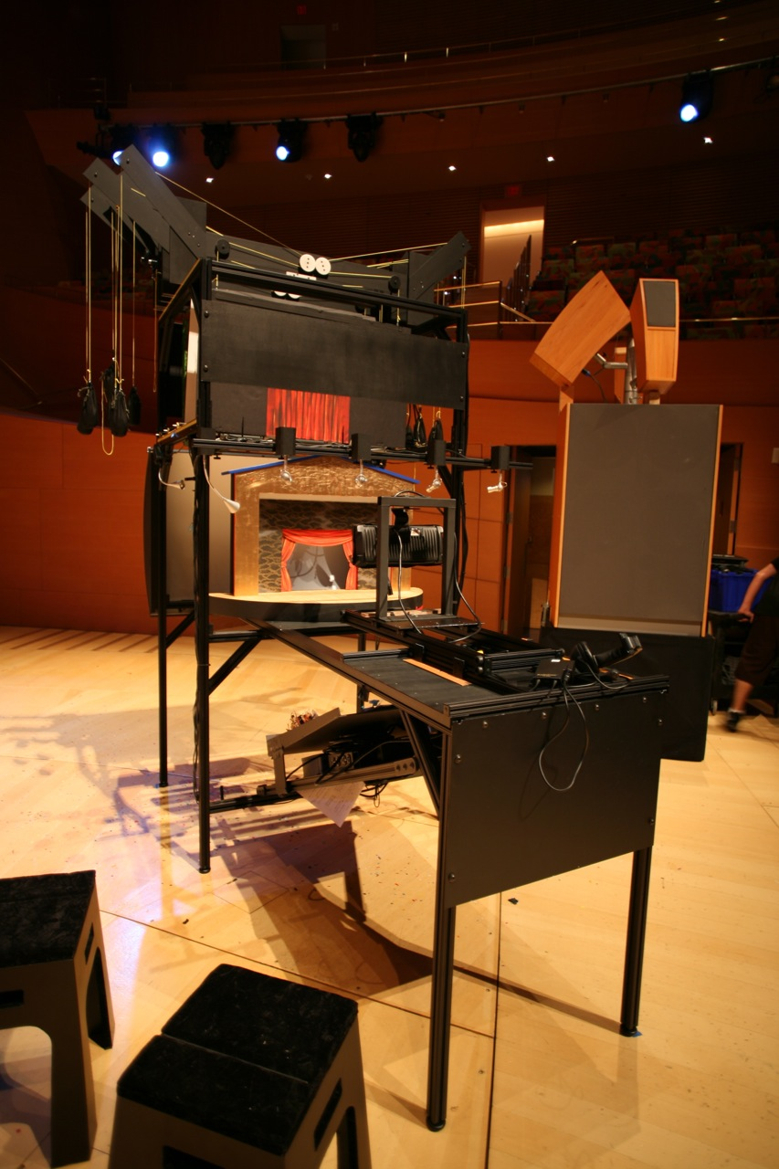 Giants Are Small's toy theatre used for "Peter and the Wolf" in Los Angeles, 2008